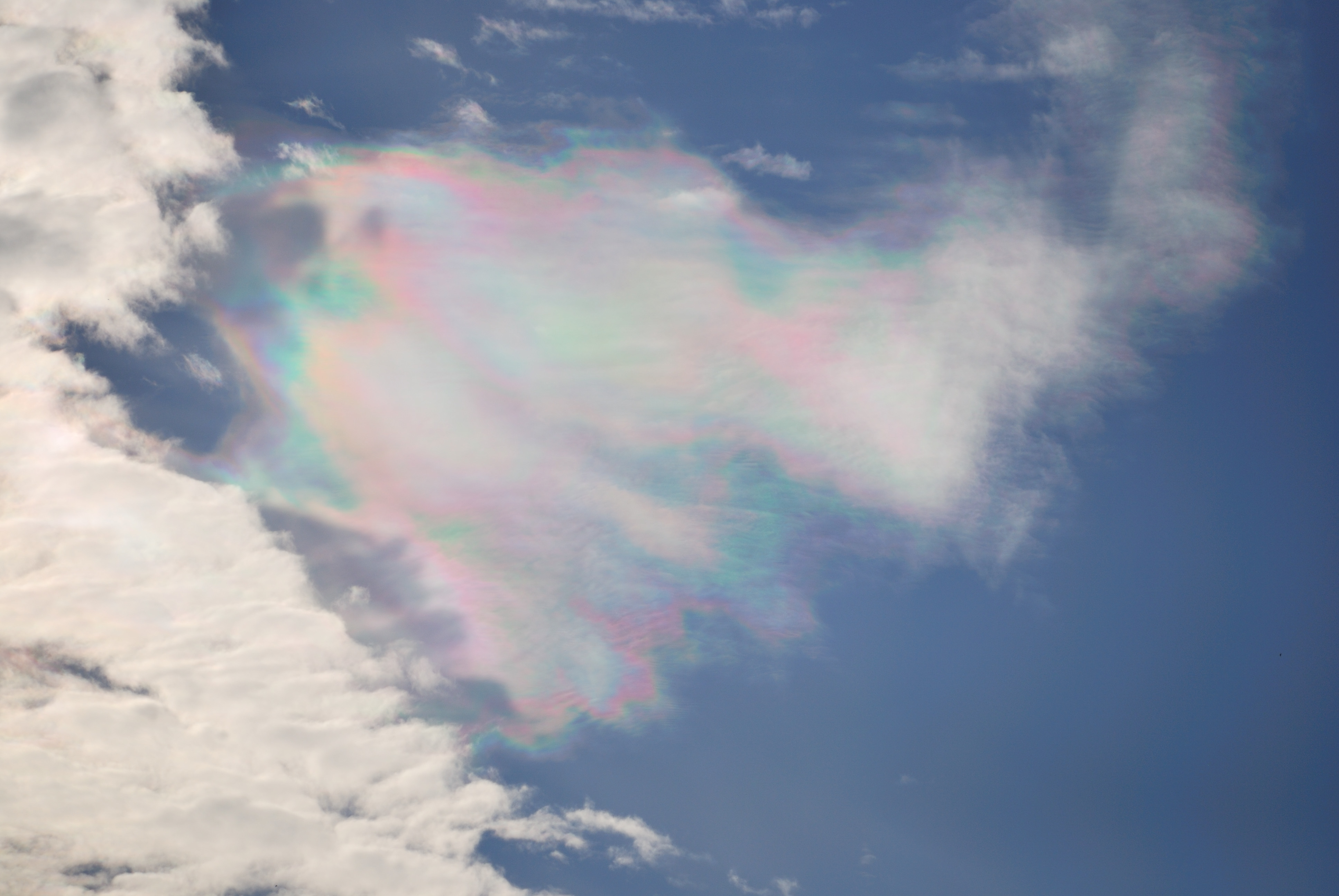 Cloud exhibiting iridescence, photo taken in Central Florida, USA.